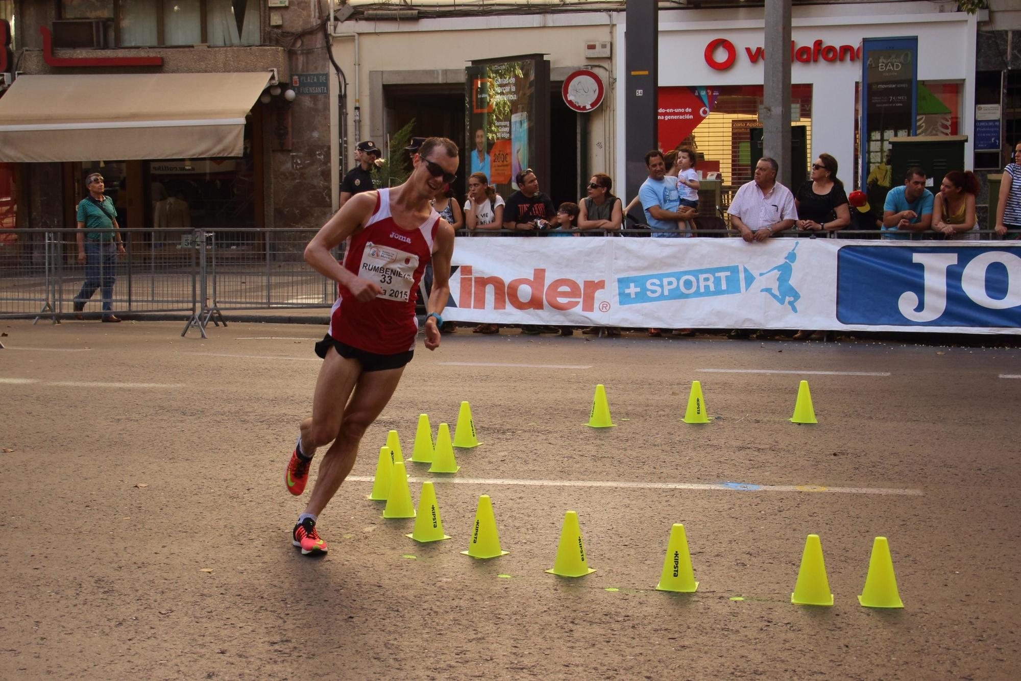 33-Arnis Rumbenieks (LAT) in the 11th European Cup Race Walking Murcia ESP 17 May 2015